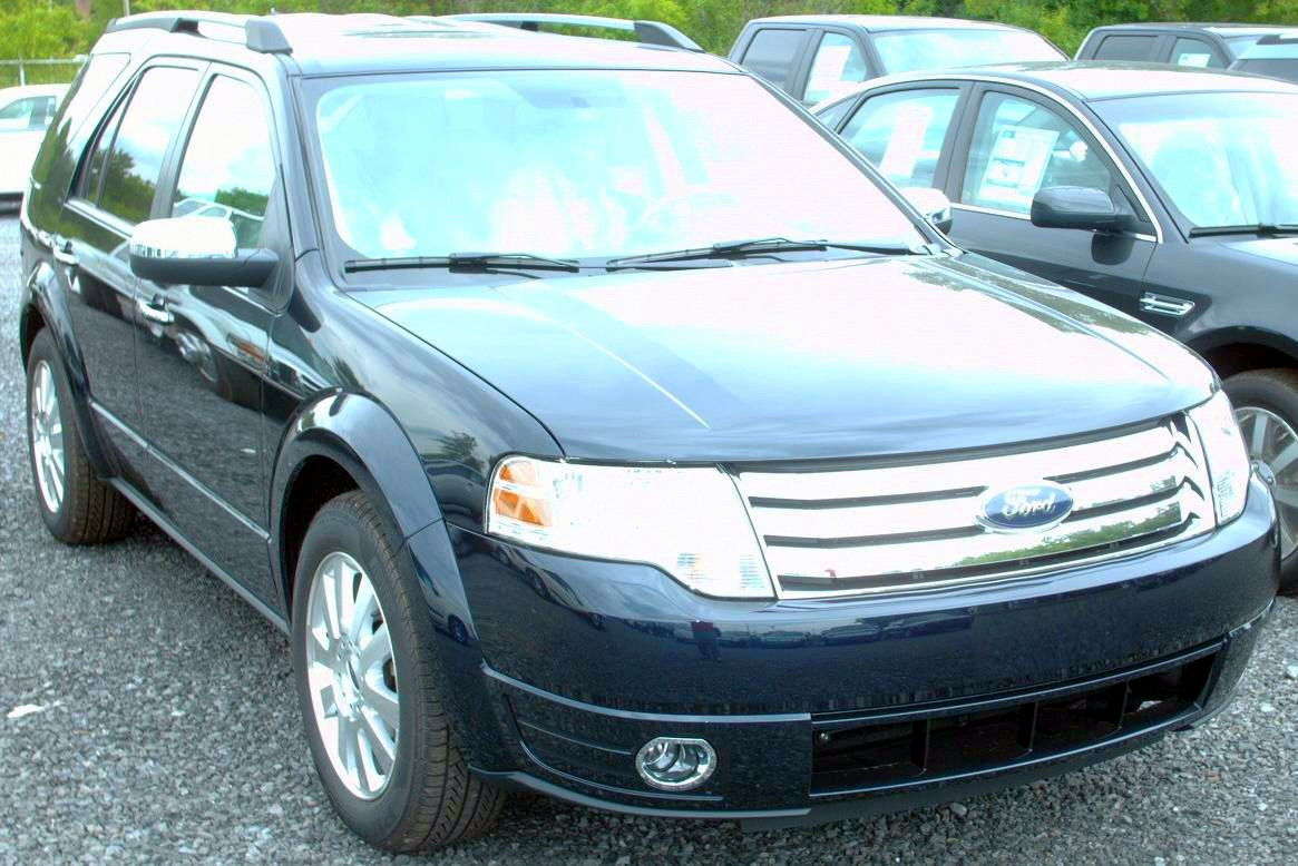 2008 Ford Taurus X photographed in Montreal, Quebec, Canada.